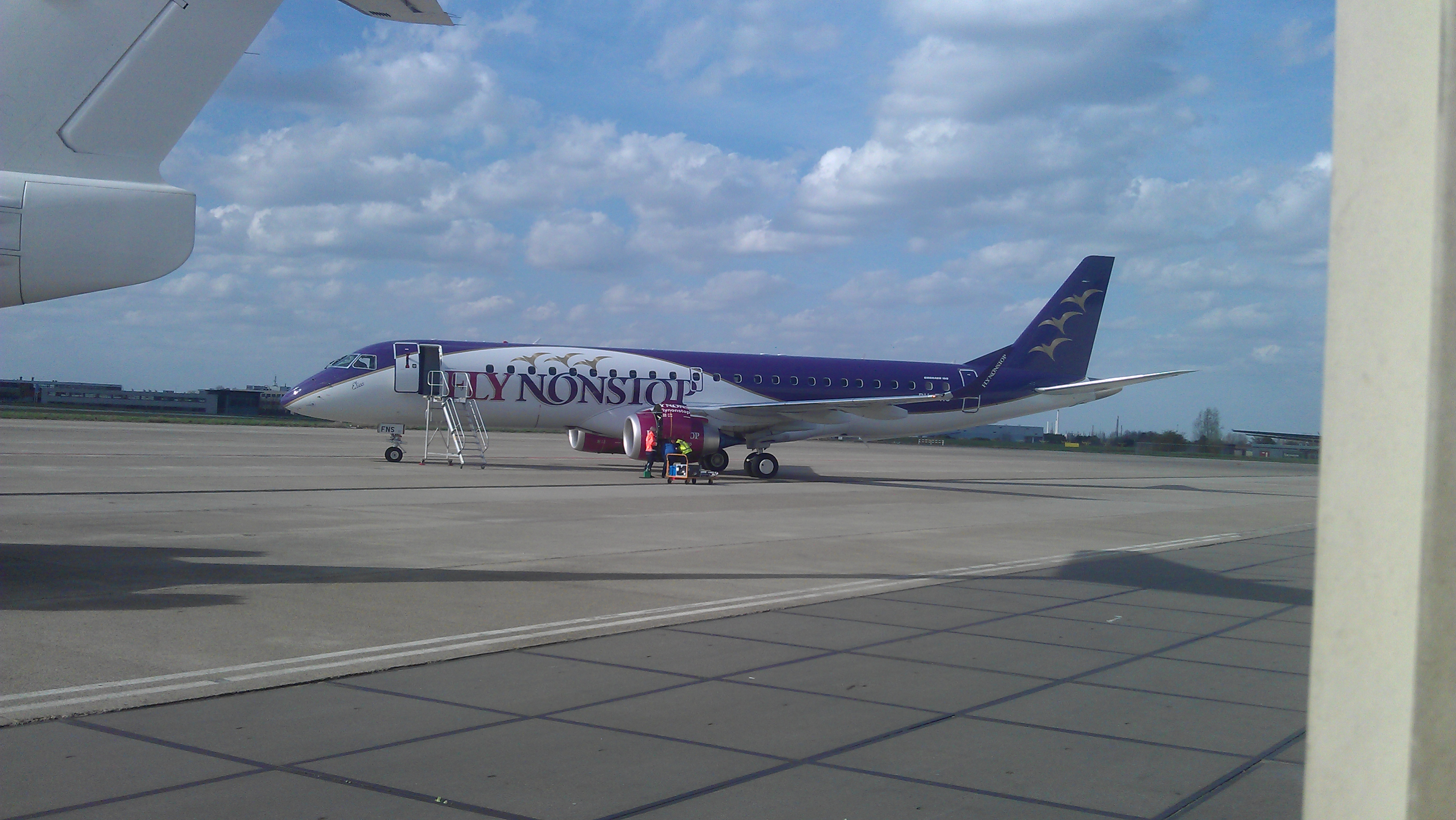 Norwegian Fly nonstop Embraer-190, operated by Denim Air